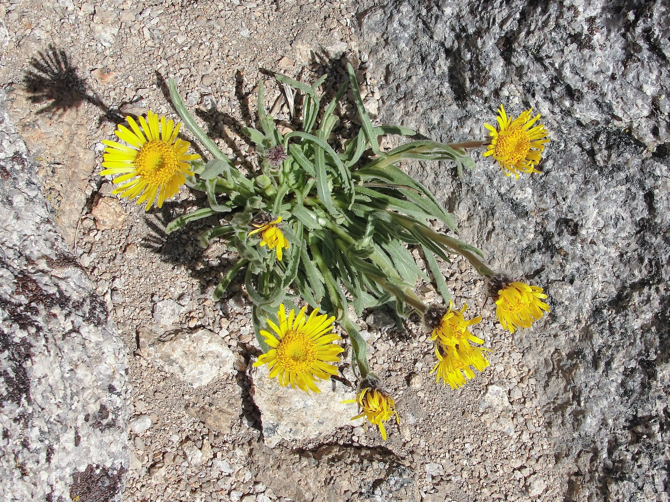 Hulsea algida (Alpine gold) — in the Sierra Nevada, California, USA.